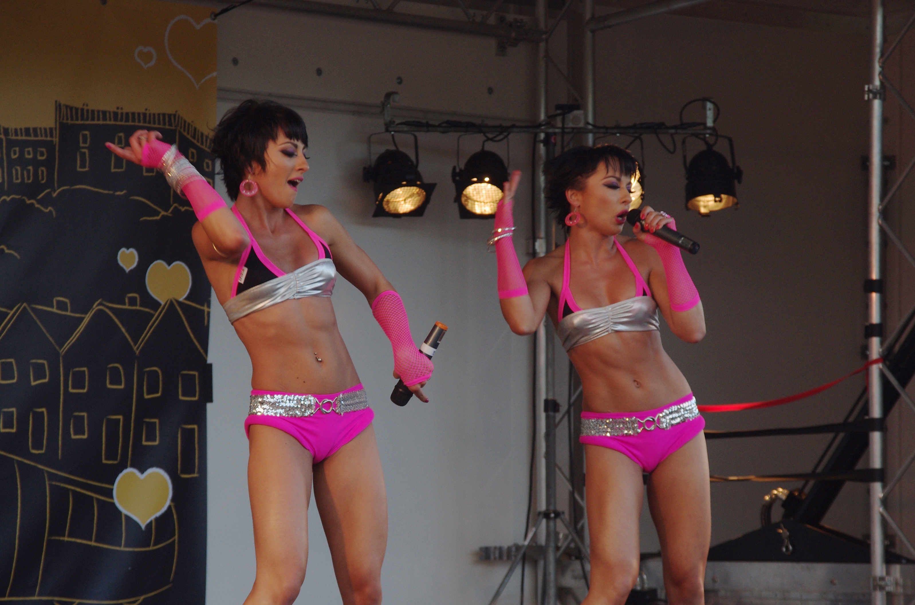 The Cheeky Girls perform onstage at Nottingham Pride 2010.